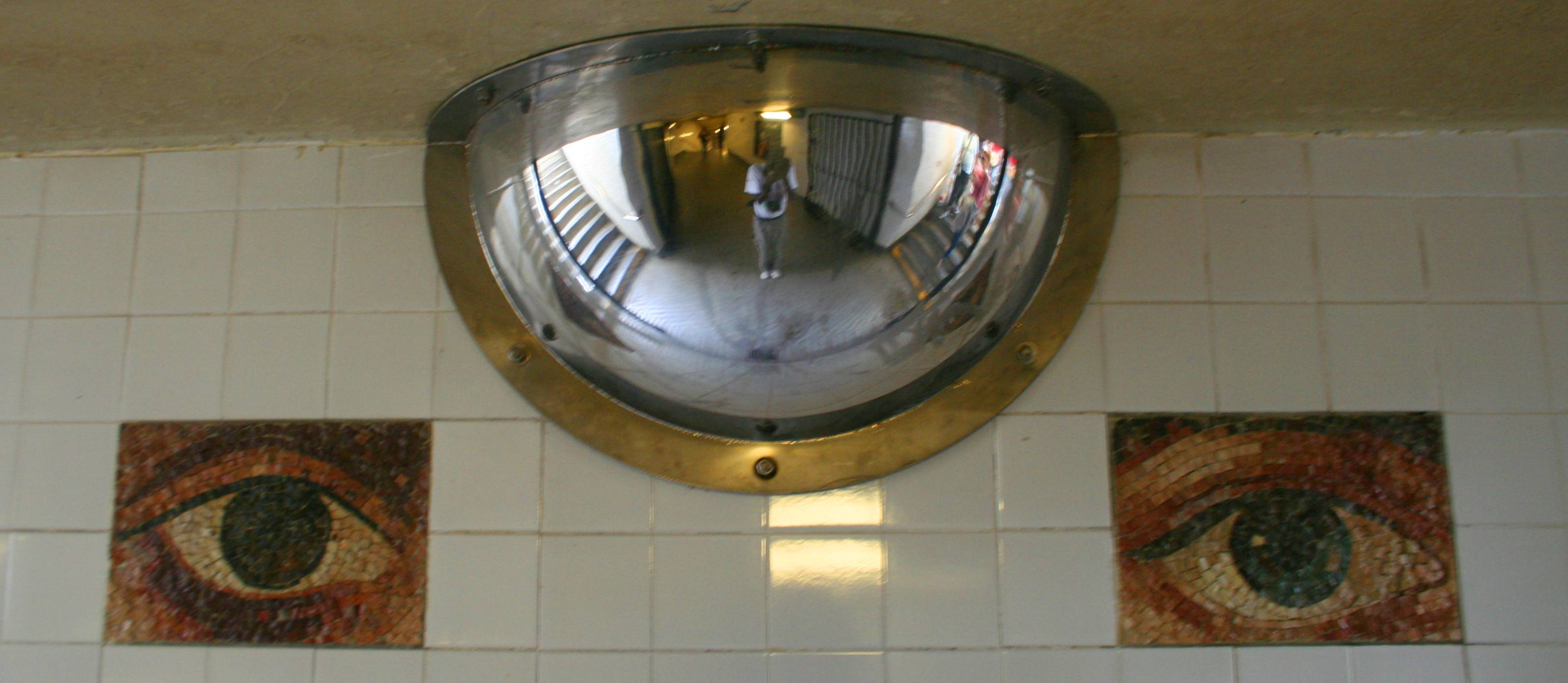 Man In the Mirror (Self - Portrait) . En route to Lower Manhattan & World Trade Center Complex from West 23rd / Chelsea deboarding at Chambers Street Station . New York City, NY . Wednesday afternoon, 05 September 2007 . Elvert Xavier Barnes Photography